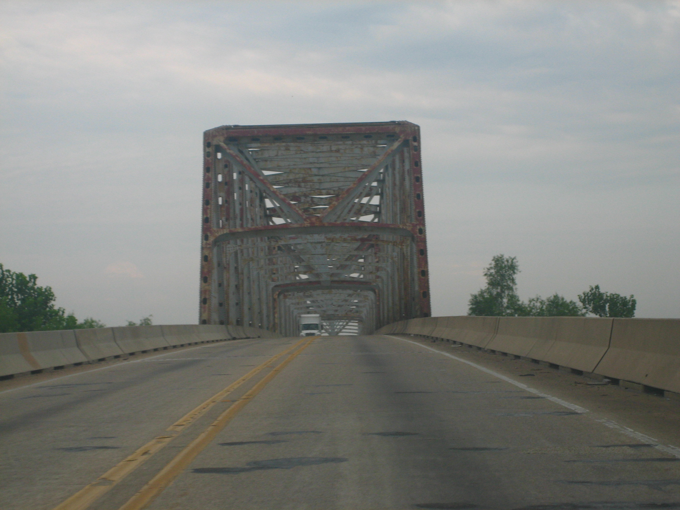 I took photo on Aug. 9, 2008.Billy Hathorn (talk) 01:19, 21 August 2008 (UTC)